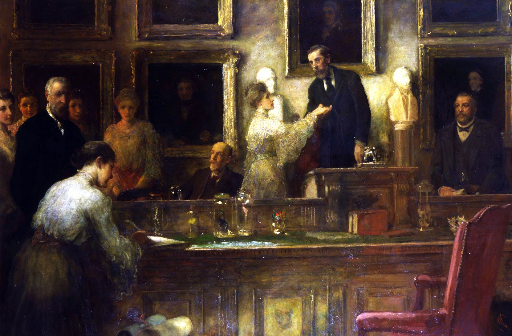 James Sant (died 1916) showing 'Linnean Society of London: First Formal Admission of Women Fellows', painted in 1906. ref -Proceedings of the Linnean Society of London. (One Hundred and Eighteenth Session, 1905‐1906.) November 2nd, 1905, to June 21st, 1906. She features in the portrait by James Sant showing 'Linnean Society of London: First Formal Admission of Women Fellows', painted in 1906. Gage, A. T. (1938). A history of the Linnean Society of London: Printed for the Linnean Society by Taylor and Francis, p.90. Constance Sladen She is the standing figure centre-left in the portrait. The first admission of women as fellows of the society in 1905, Emma Louisa Turner is on the far left, Lilian J. Veley is shown signing the membership book, whilst Lady Catherine Crisp receives the 'hand of Fellowship' from the president, William Abbott Herdman, behind Lilian J. Veley and standing is Constance Sladen - from a painting by James Sant (1820–1916)